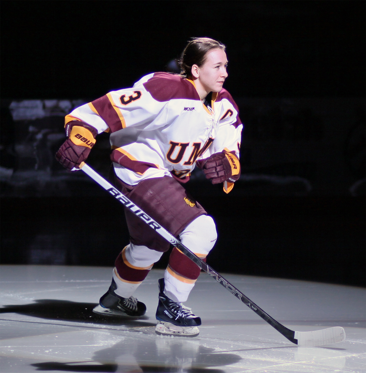 University of Minnesota-Duluth women's hockey defenseman Jocelyne Larocque